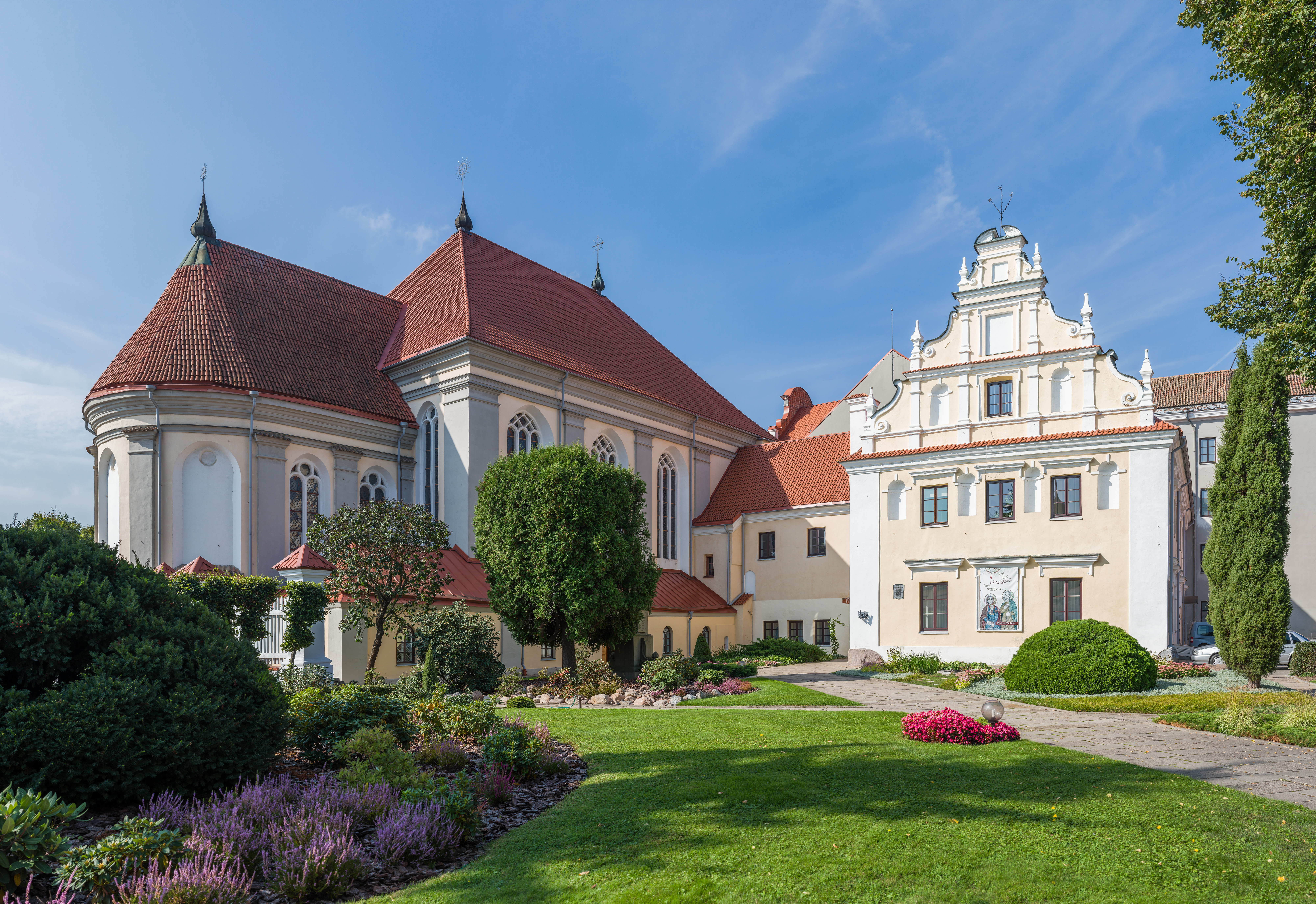 The grounds of Kaunas Priest Seminary, Kaunas, Lithuania.